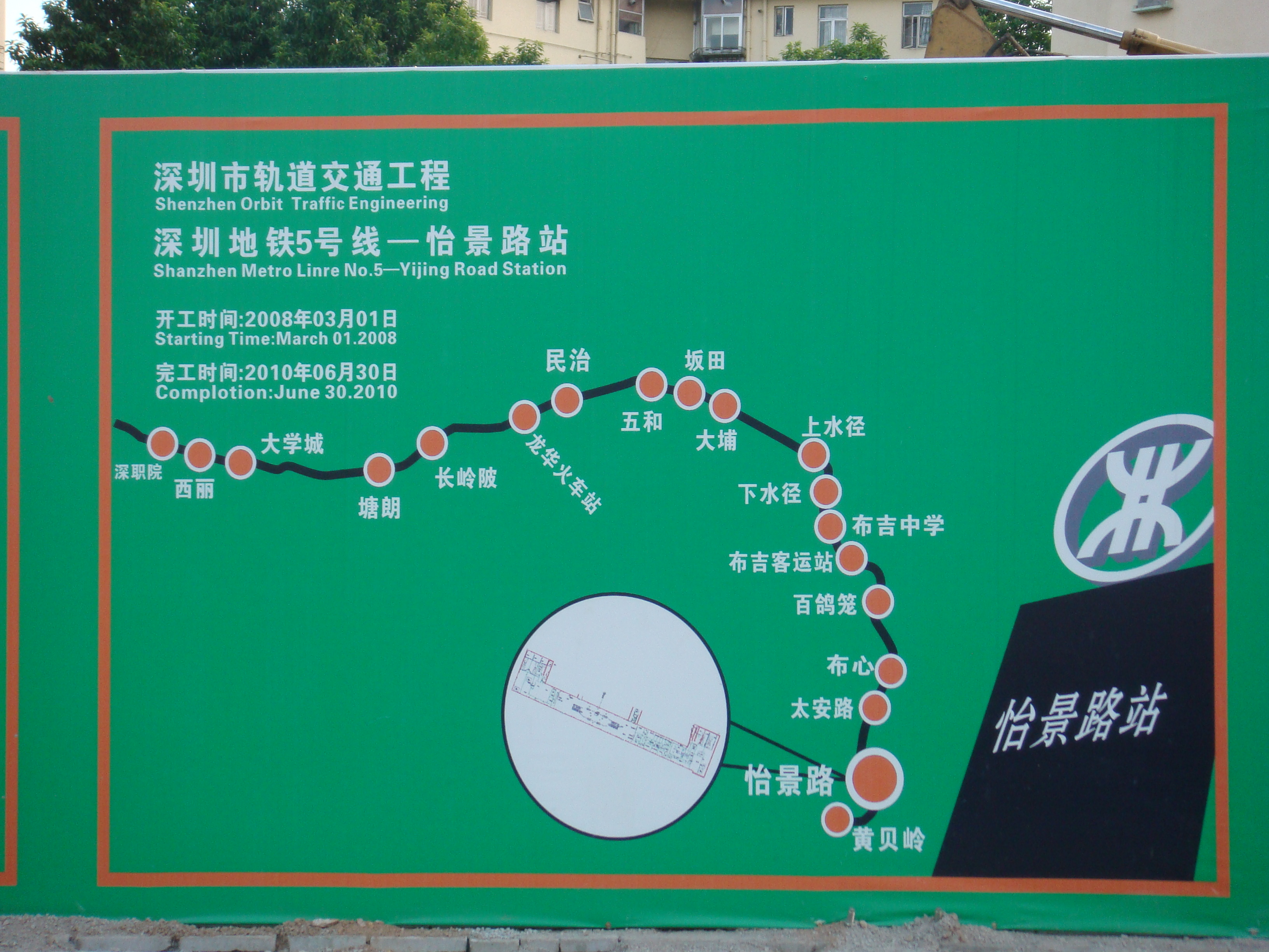 yijinglu sta. underconstruction